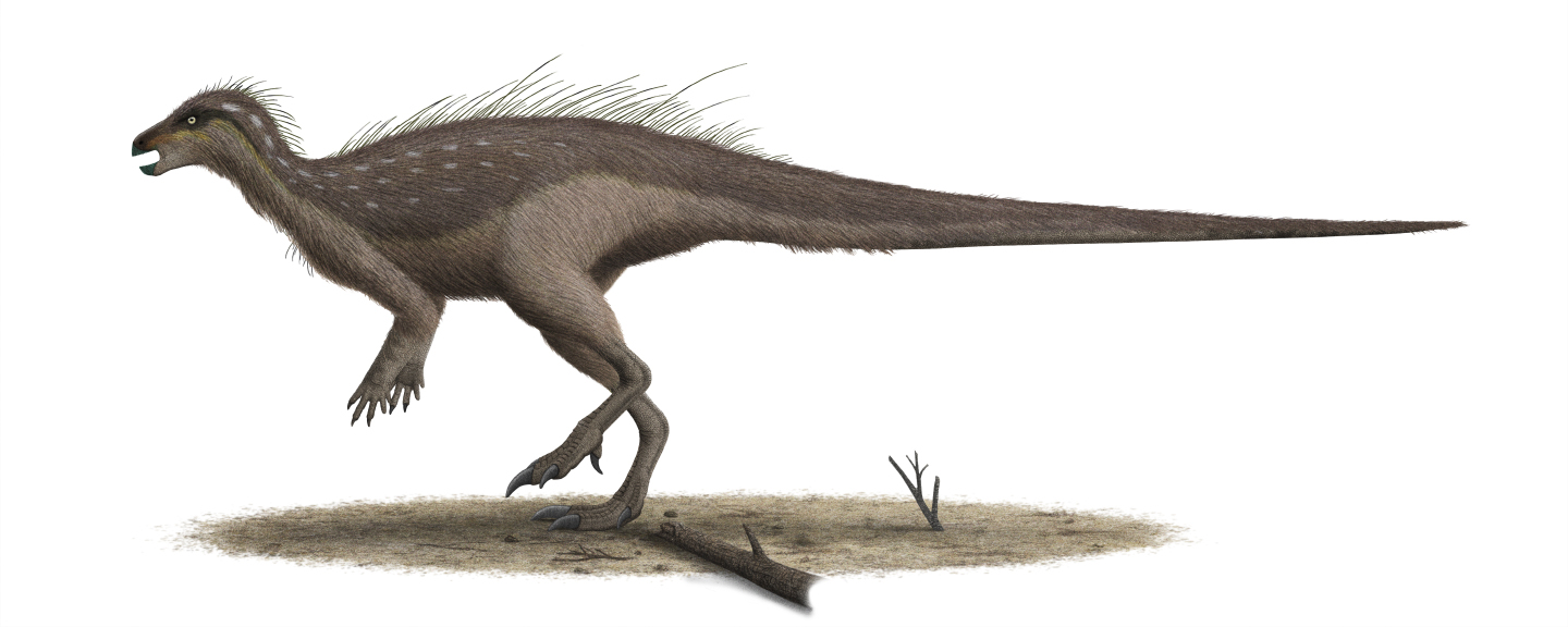 Parksosaurus warreni restoration, • Based proportionally on a skeletal diagram by Gregory S Paul. [1] • The skin details in this image are speculative but based loosely on related dinosaurs. Until recently most skin impressions from Ornithischians showed circular or polygonal scales but these were from larger hadrosaurs and ceratopsians. In 2009 the Heterodontosaur Tianyulong was described which shows filamentous quill like structures along its back and underside. [2] In 2014 Kulindadromeus was described and showed a mix of feather like structures and scales. [3] • The colours and/or patterns, as with nearly all reconstructions of prehistoric creatures, are speculative. NOTE: I often update my images. If you want to have any of my images on a website, please (if possible) don’t host/save it to the website server. I’d prefer it if the image's Wikimedia URL is used. This means that if I update an image, it will be updated on the site as well. Thanks. References ↑ Paul, G.S. , ed. (2000) The Scientific American Book of Dinosaurs, St. Martin's Press ISBN: 0-312-26226-4. ↑ Zheng, Xiao-Ting (19 March 2009). "An Early Cretaceous heterodontosaurid dinosaur with filamentous integumentary structures". Nature 458 (7236): 333–336. PMID 19295609. ↑ Godefroit, P., Sinitsa, S.M., Dhouailly, D., Bolotsky, Y.L., Sizov, A.V., McNamara, M.E., Benton, M.J., and Spagna, P. 2014. "A Jurassic ornithischian dinosaur from Siberia with both feathers and scales." Science, 345(6195): 451-455. Published 25 Jul 2014.